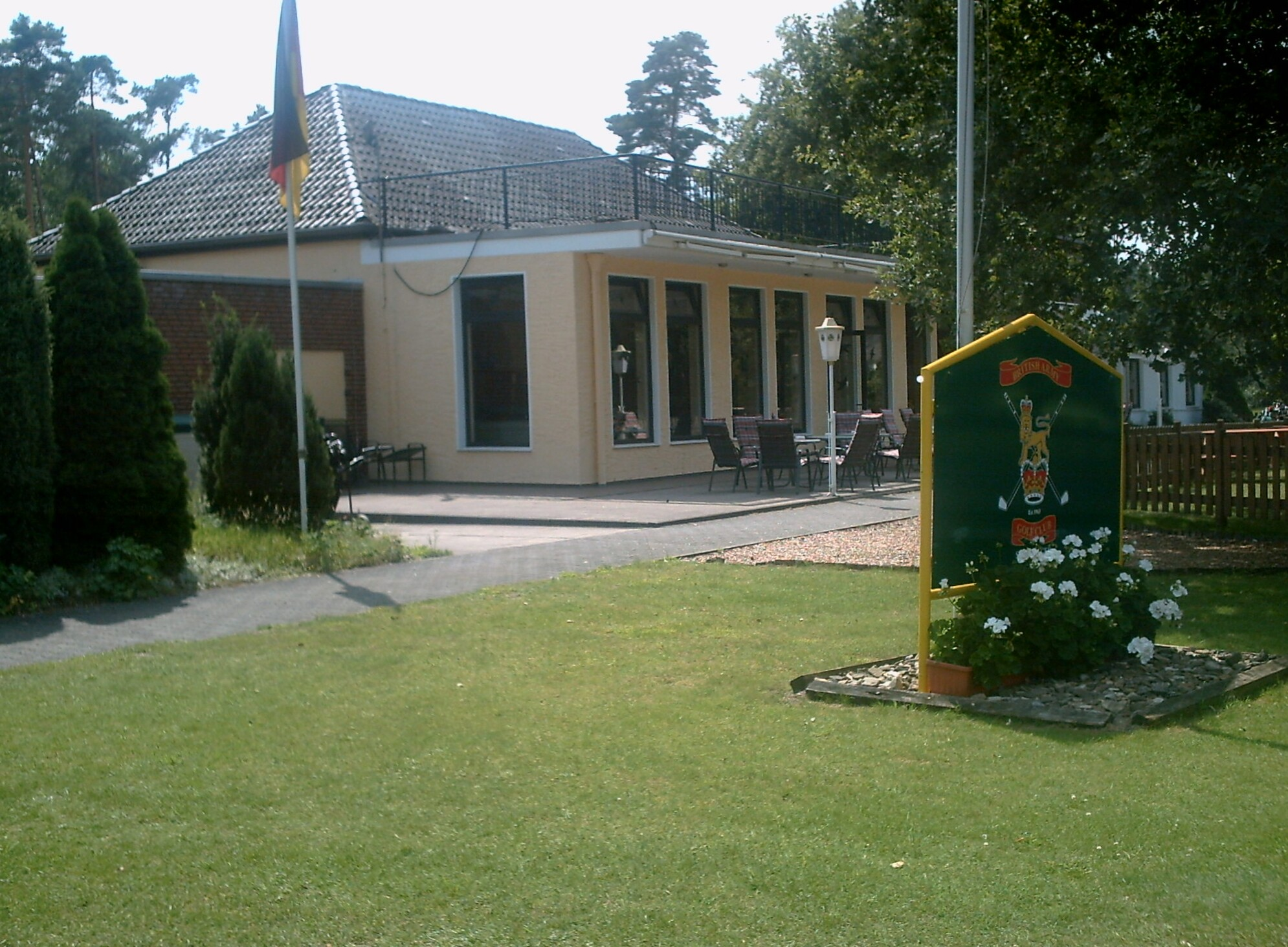 Club house of the British Army Golf course Sennelager in the landscape Senne near Bad Lippspringe, Germany